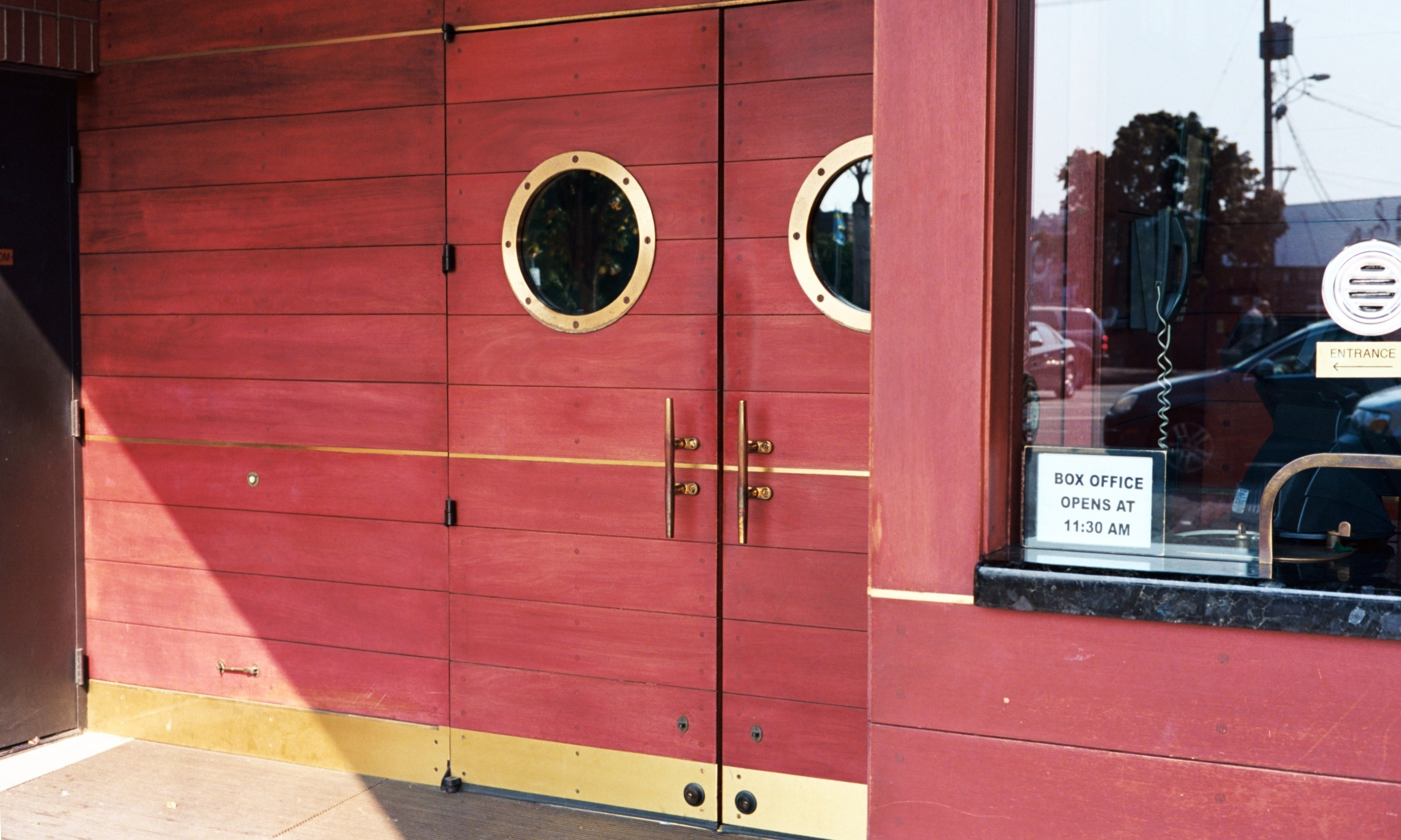 The Majestic Bay doors and box office. Ballard, Seattle, Washington.